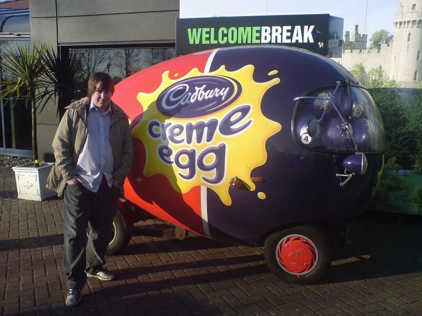 A man standing by a Cadbury Creme Egg car yesterday